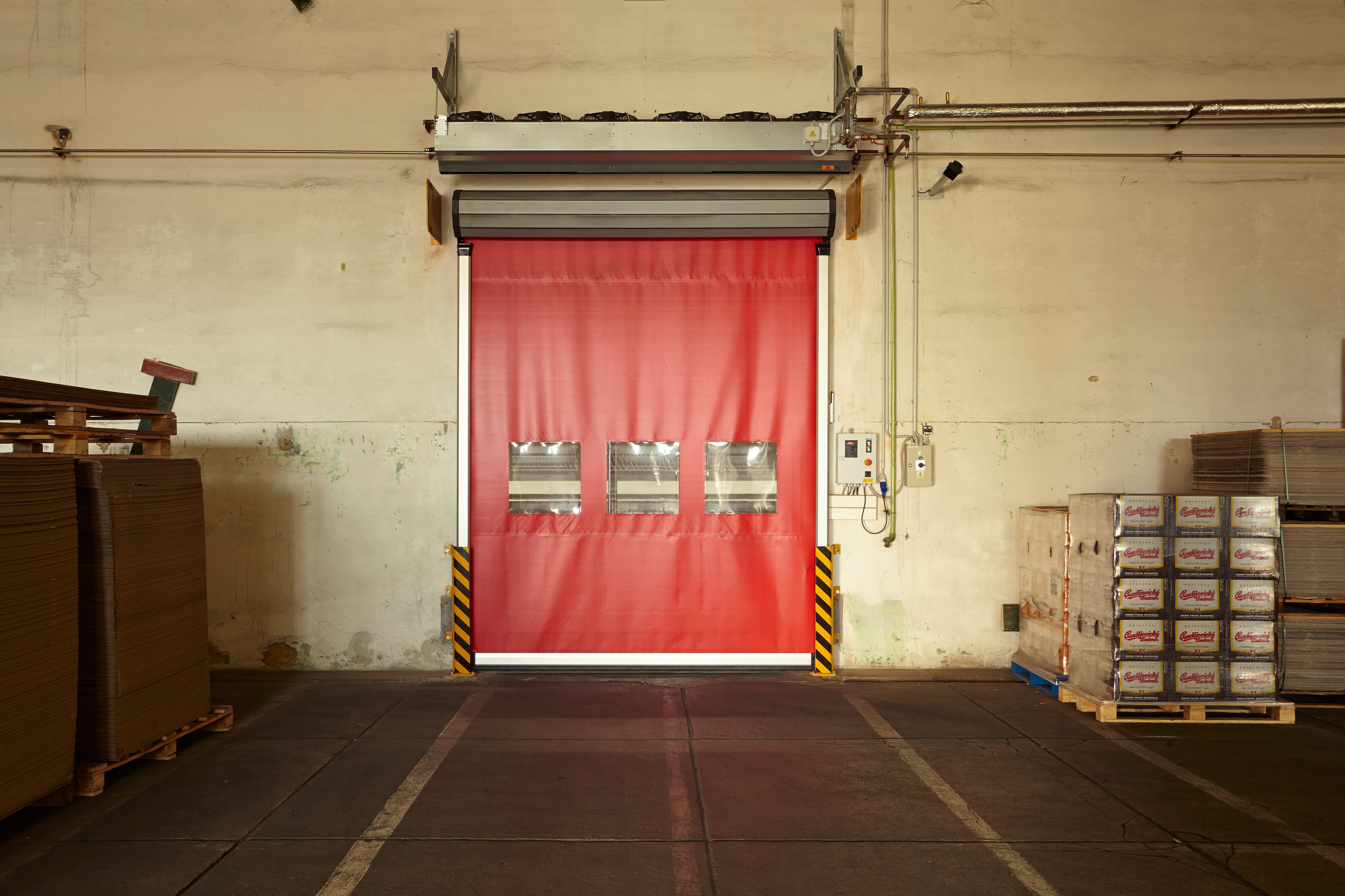 Industrial air curtain